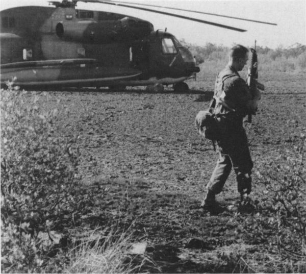 Knife 22 after making an emergency landing near Rayong, Thailand